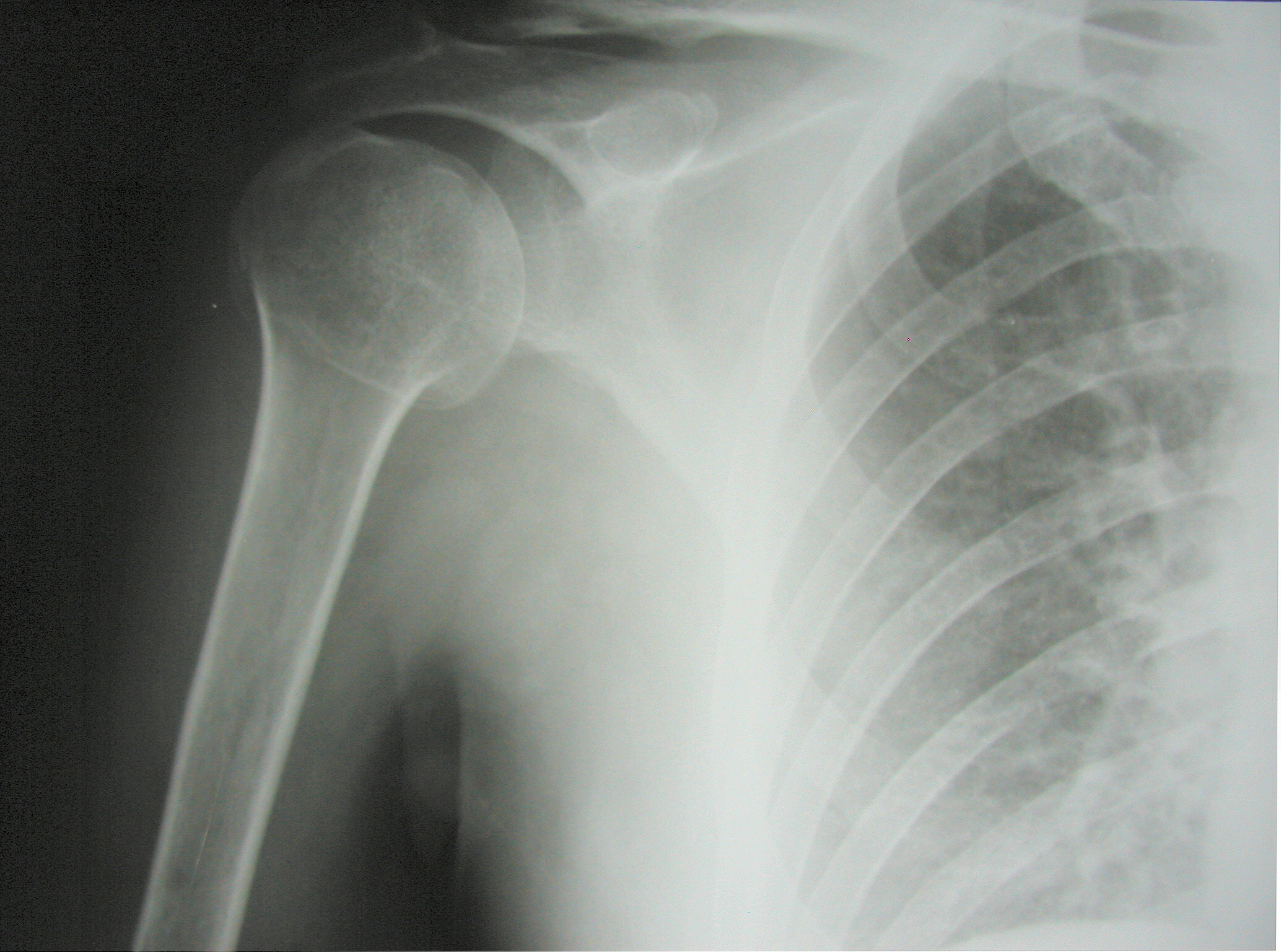 Surgical neck fracture of humerus.